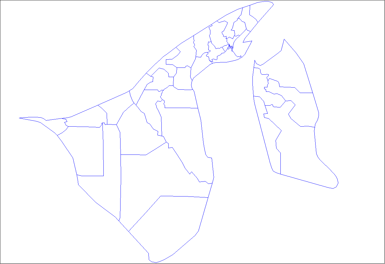 Map of the mukims of Brunei. Created using MapInfo Professional v8.5 and various mapping resources.